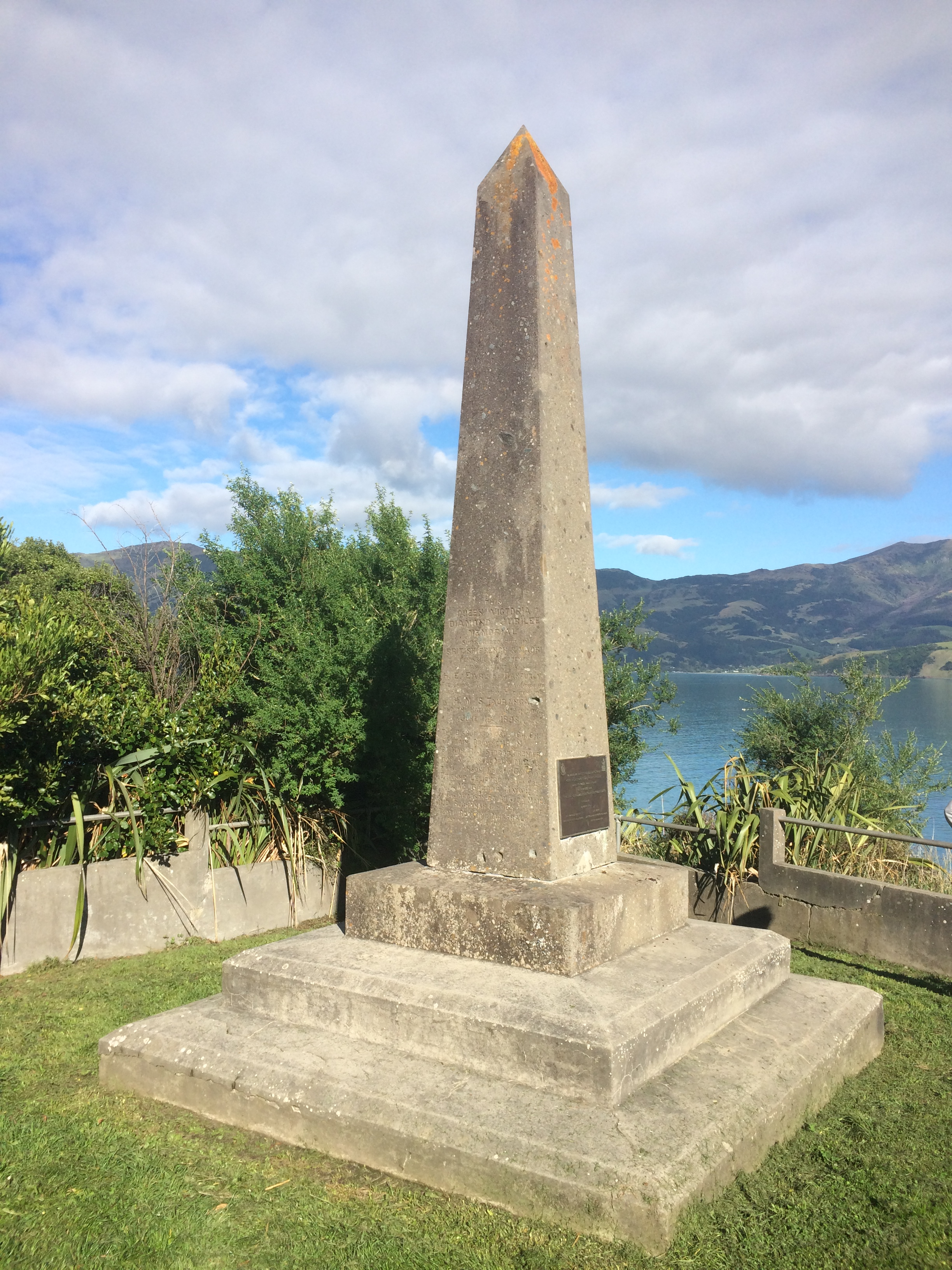 The Britomart Monument in 2018